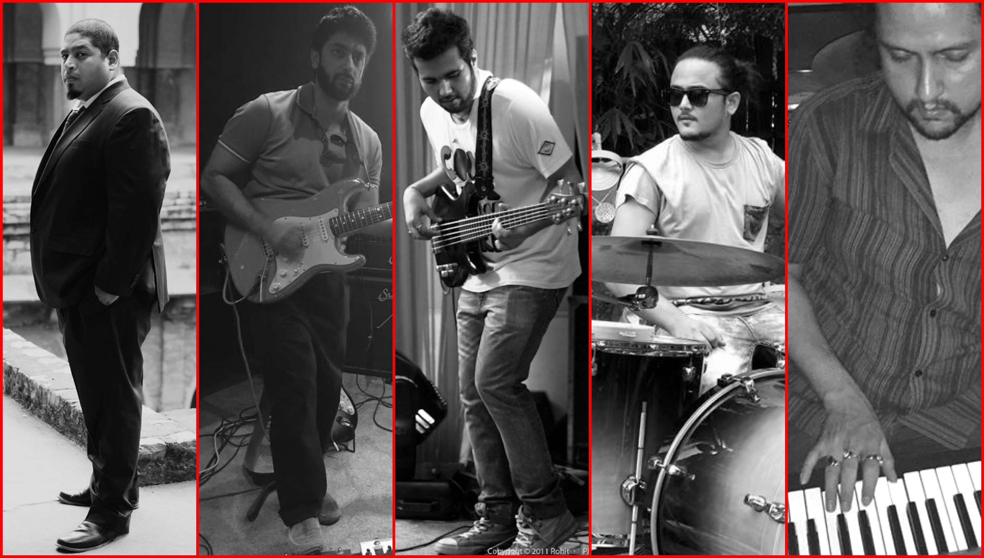 L to R - Ashish Ddavidd, Ish Anand, Jivitesh Kharbanda, Naren Chettri & Mohit Dimri